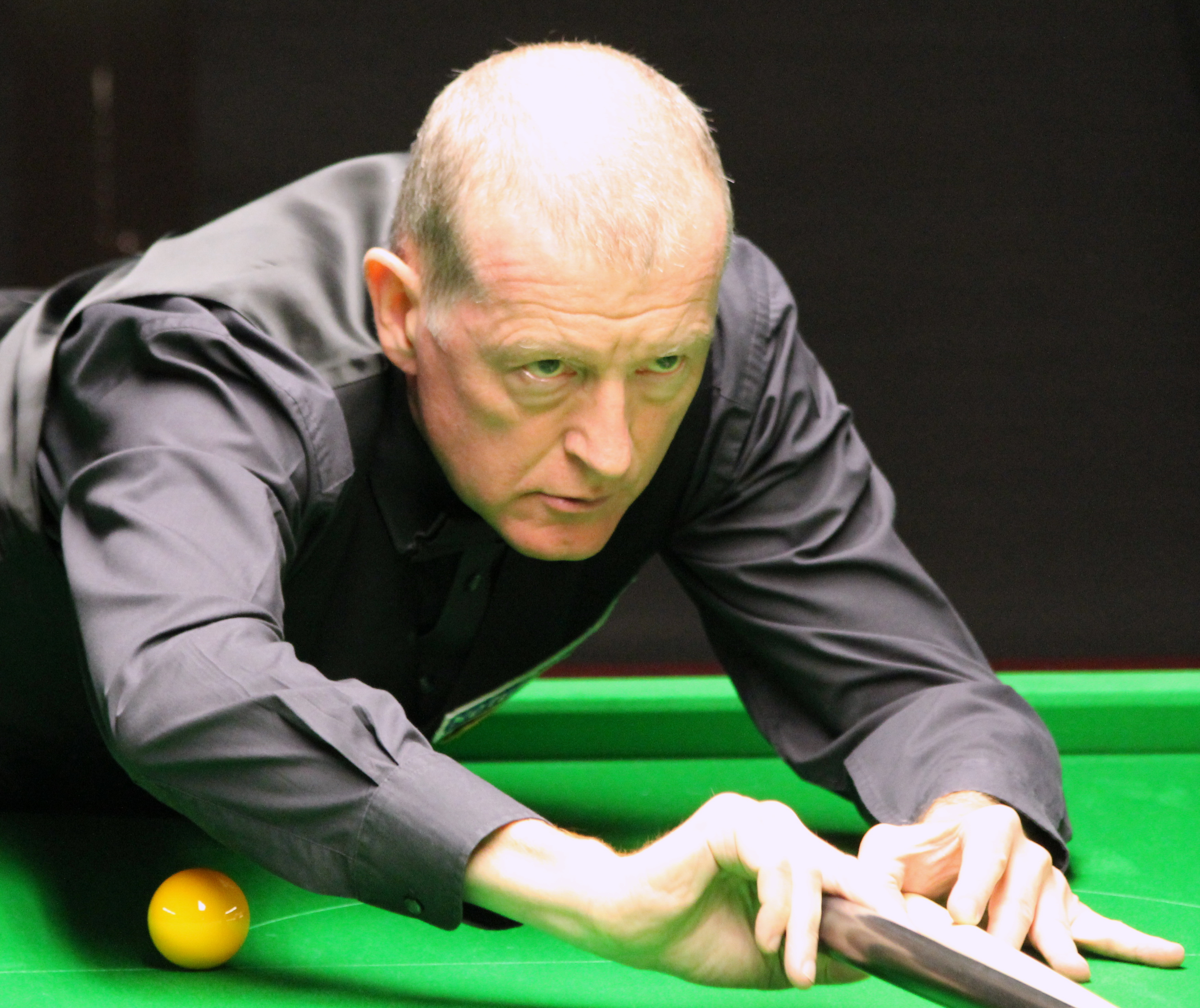 Steve Davis beim Paul Hunter Classic 2012